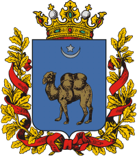 Coat of arms of Semipalatinsk Province, Russian Empire